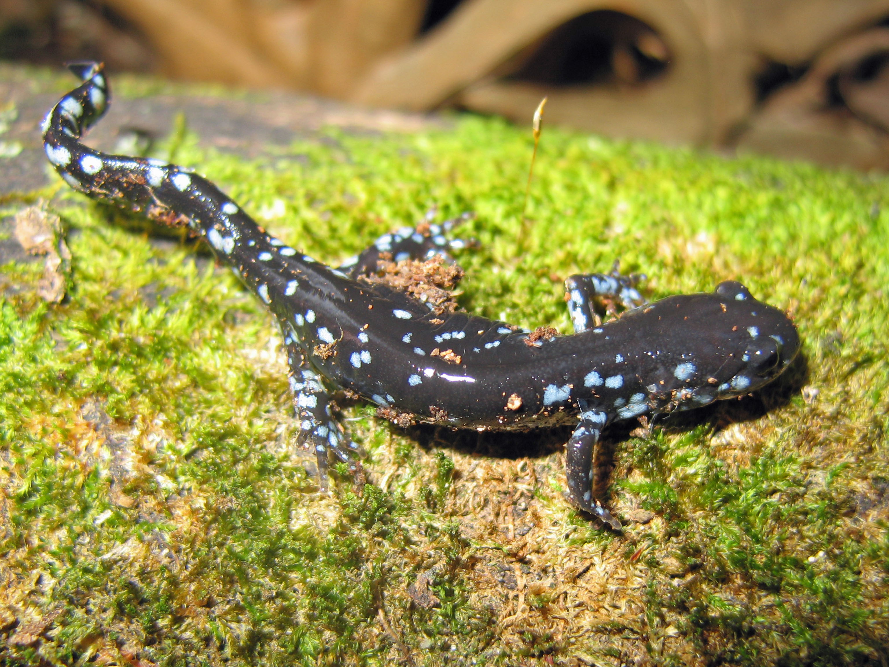 Ambystoma laterale (blue-spotted salamander)